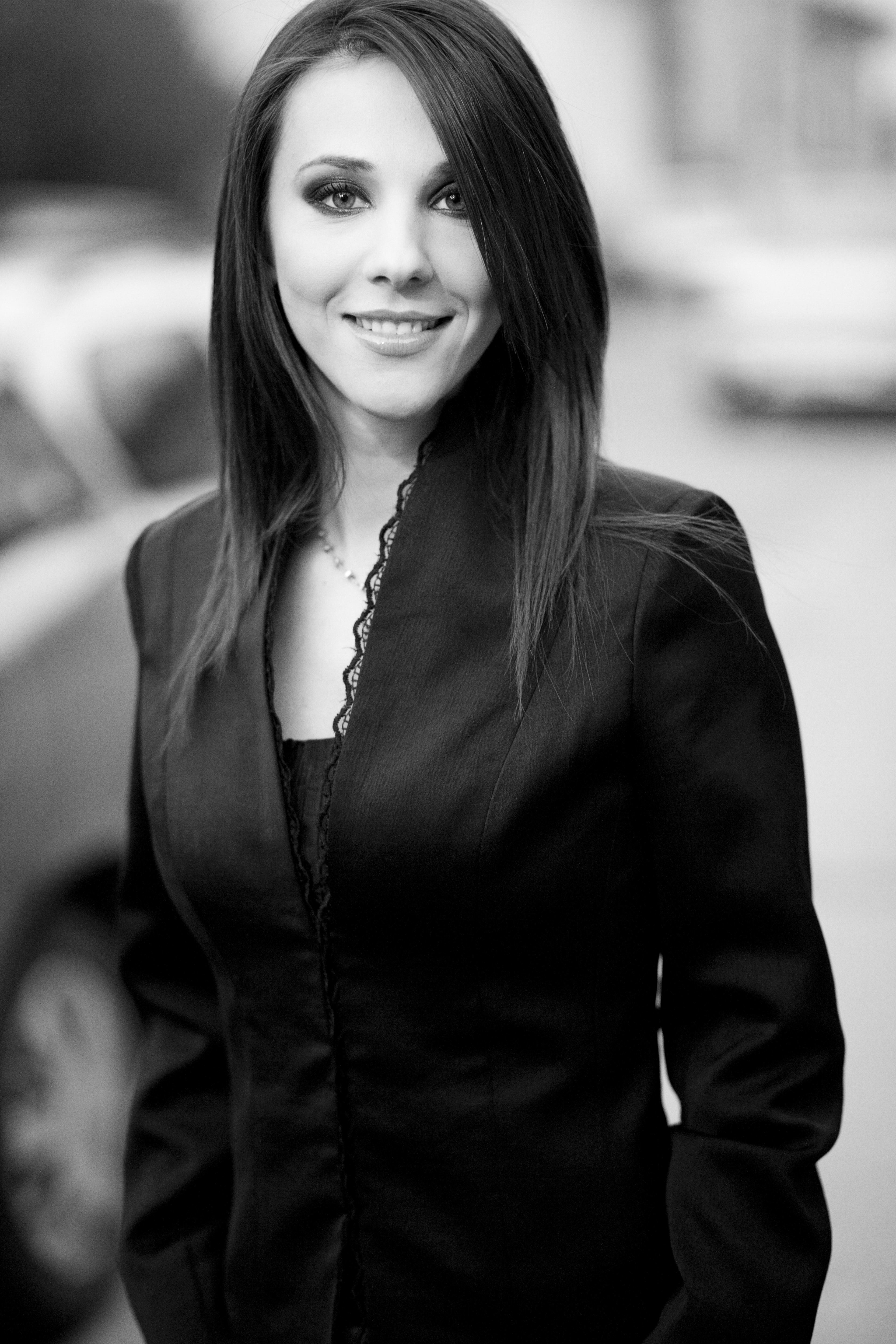 Andreea Raducan in 2006